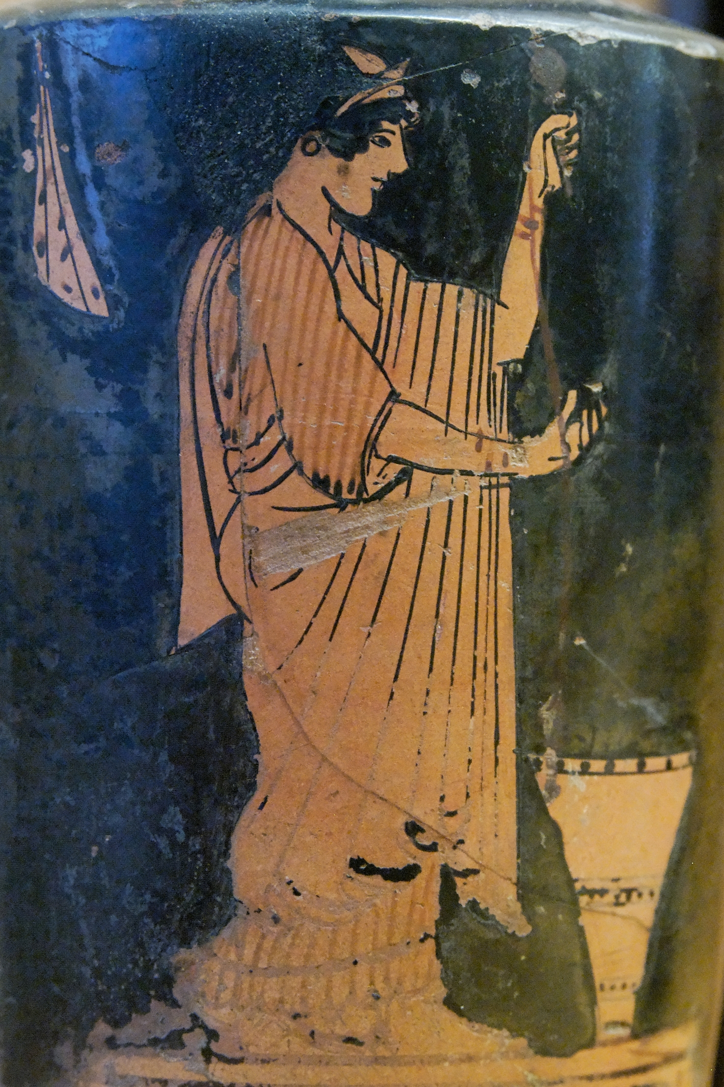 Woman spinning; a kalathos on the ground. Attic red-figure lekythos, 480–470 BC.